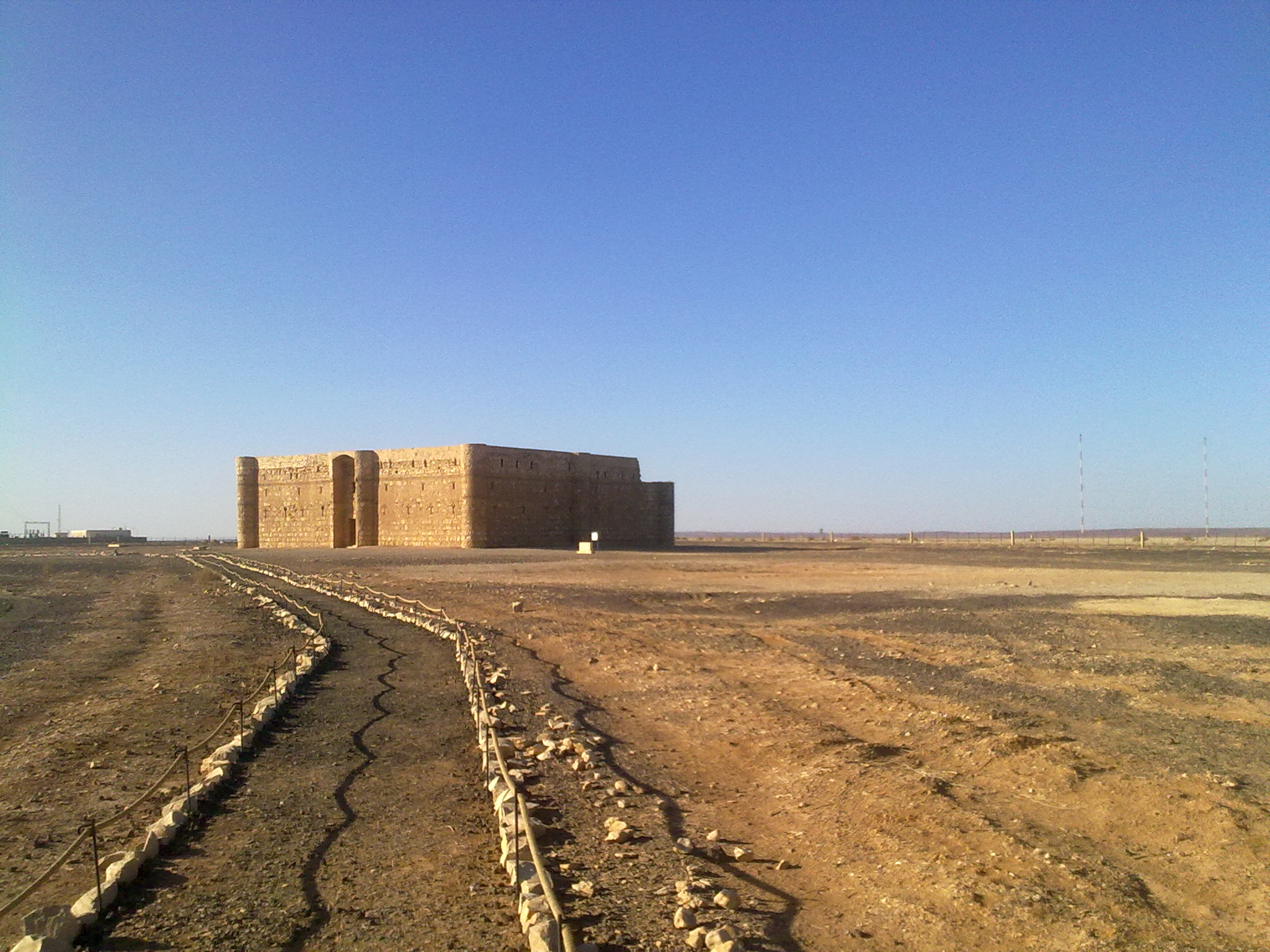 Qasr Kharana, Jordan